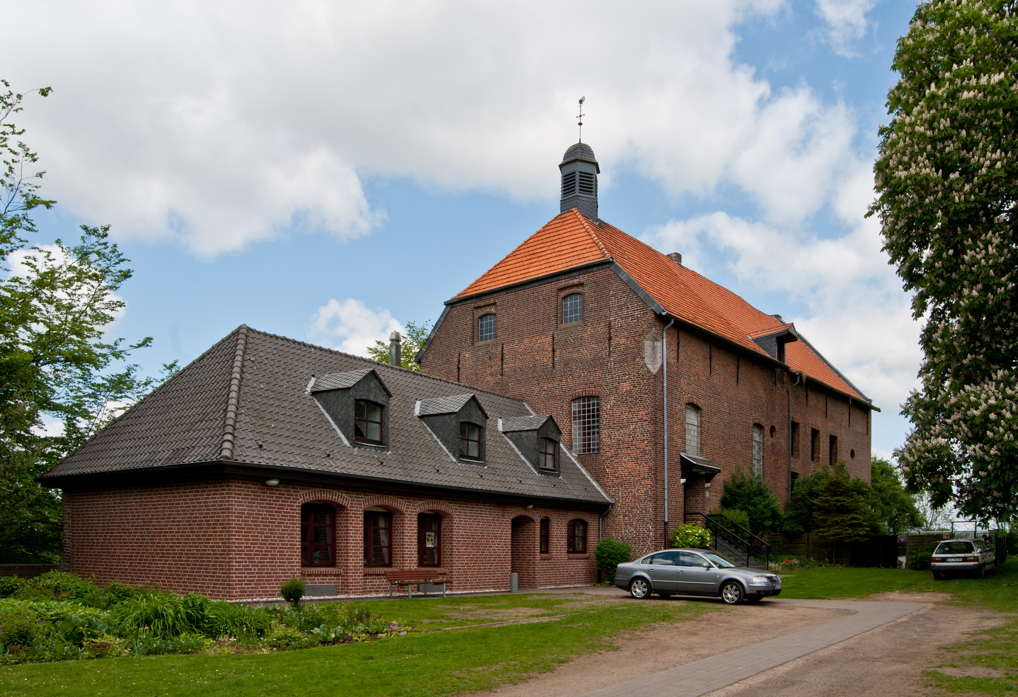 Kevelaer (North Rhine-Westphalia, Germany) – village Kervenheim – Kervendonk Castle This image shows a heritage building in Germany, located in the North Rhine-Westphalian city Kevelaer (no. 11). This photograph was taken with a Nikon D3000